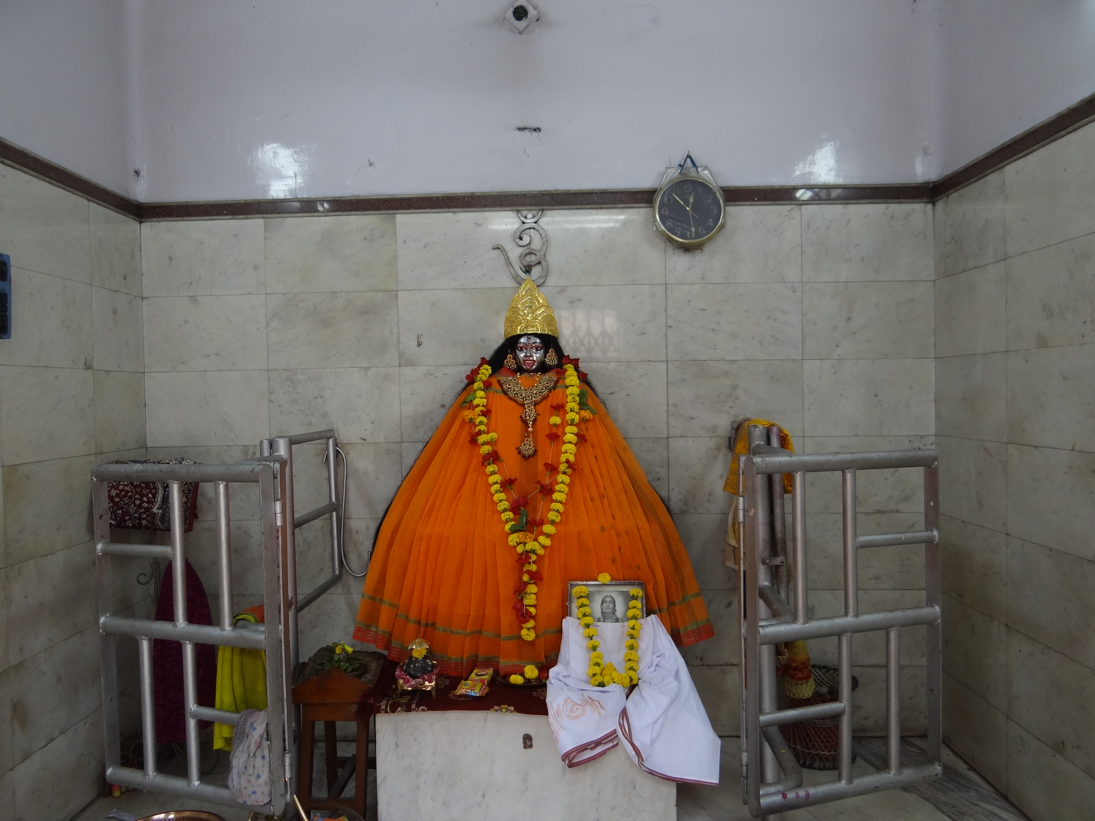 Ma Kali idol at Tarapith